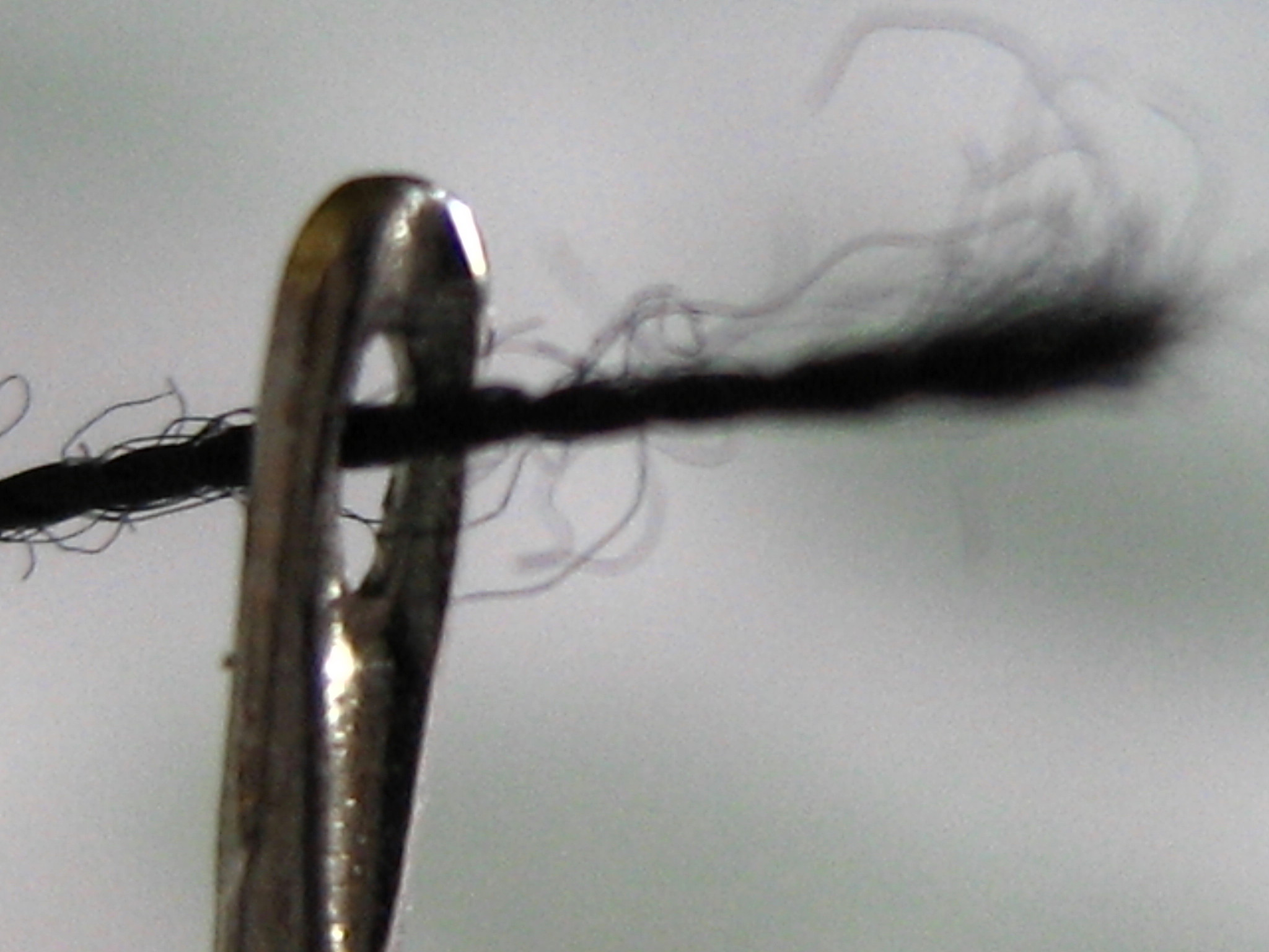 Here We see a black thread passing through the needle eye.